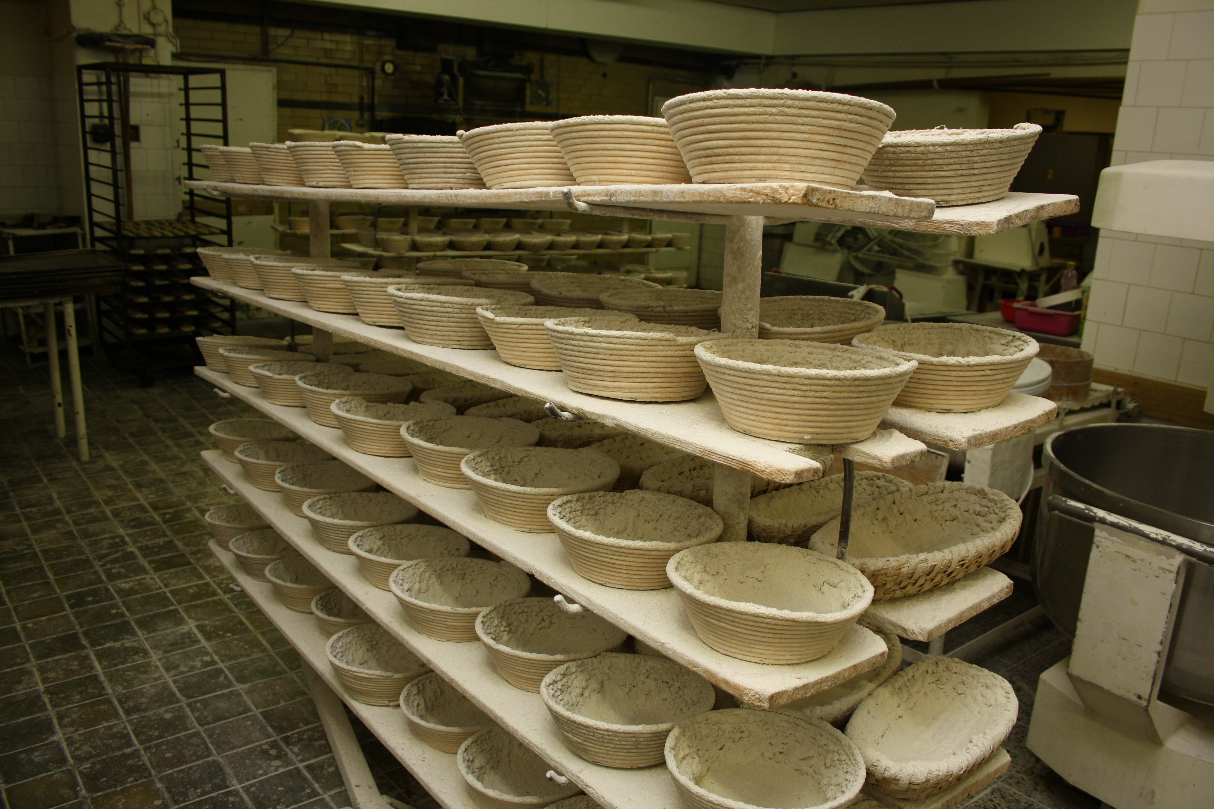 Production process of bread, Czech Republic This photograph was taken with a DSLR from WMCZ's Camera grant. This picture was taken and/or got within the scope of the 'Acquiring scientific and specialized pictures' grant.